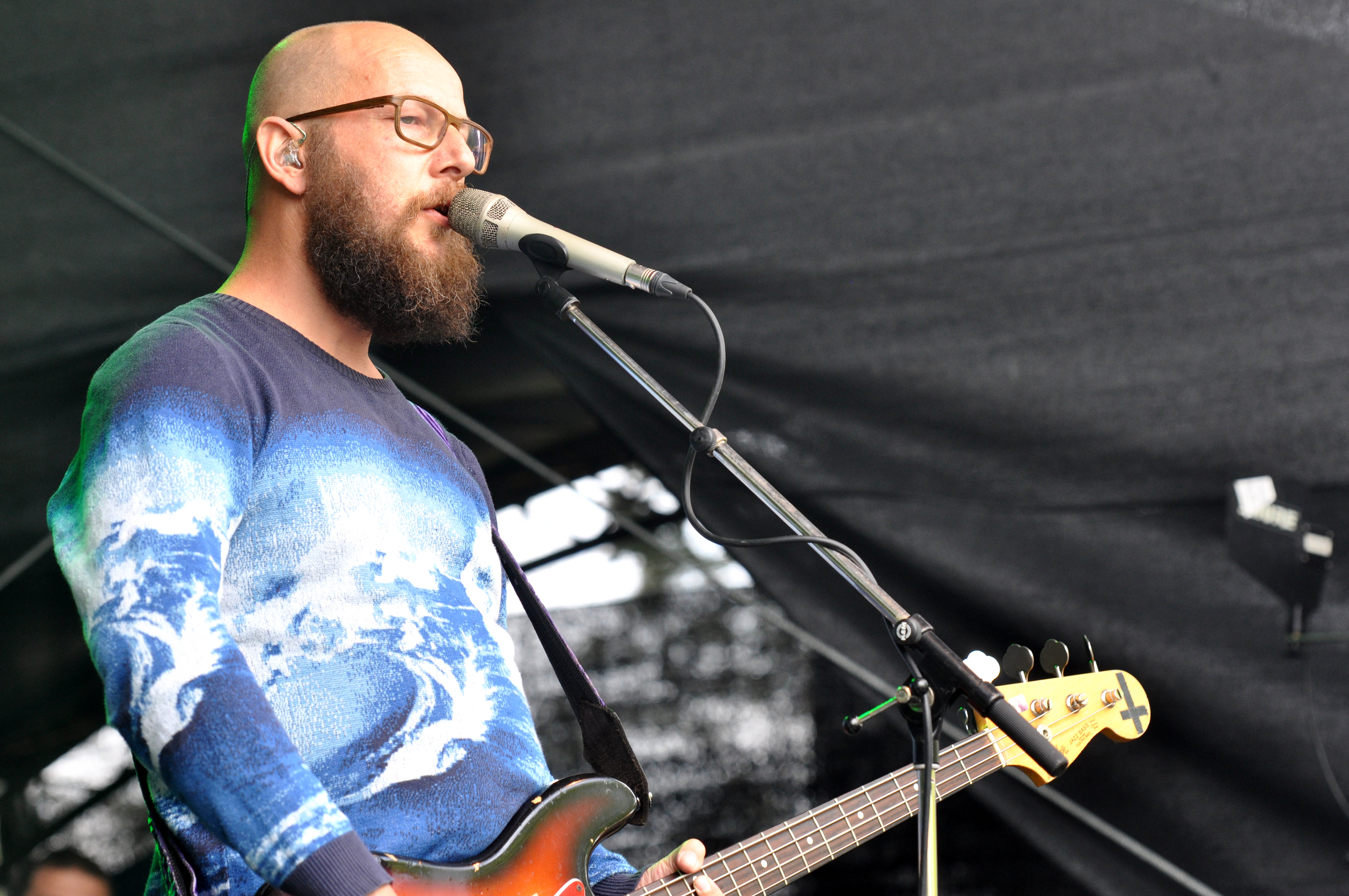 Bananafishbones (DEU) appearance at the 2016 blacksheep festival at Bonfeld castle, Bad Rappenau, Baden-Wuerttemberg, Germany Festivalsommer This photo was created with the support of donations to Wikimedia Deutschland in the context of the CPB project "Festival Summer".